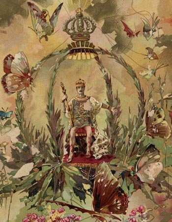 Poster of the Rex Parade 1872